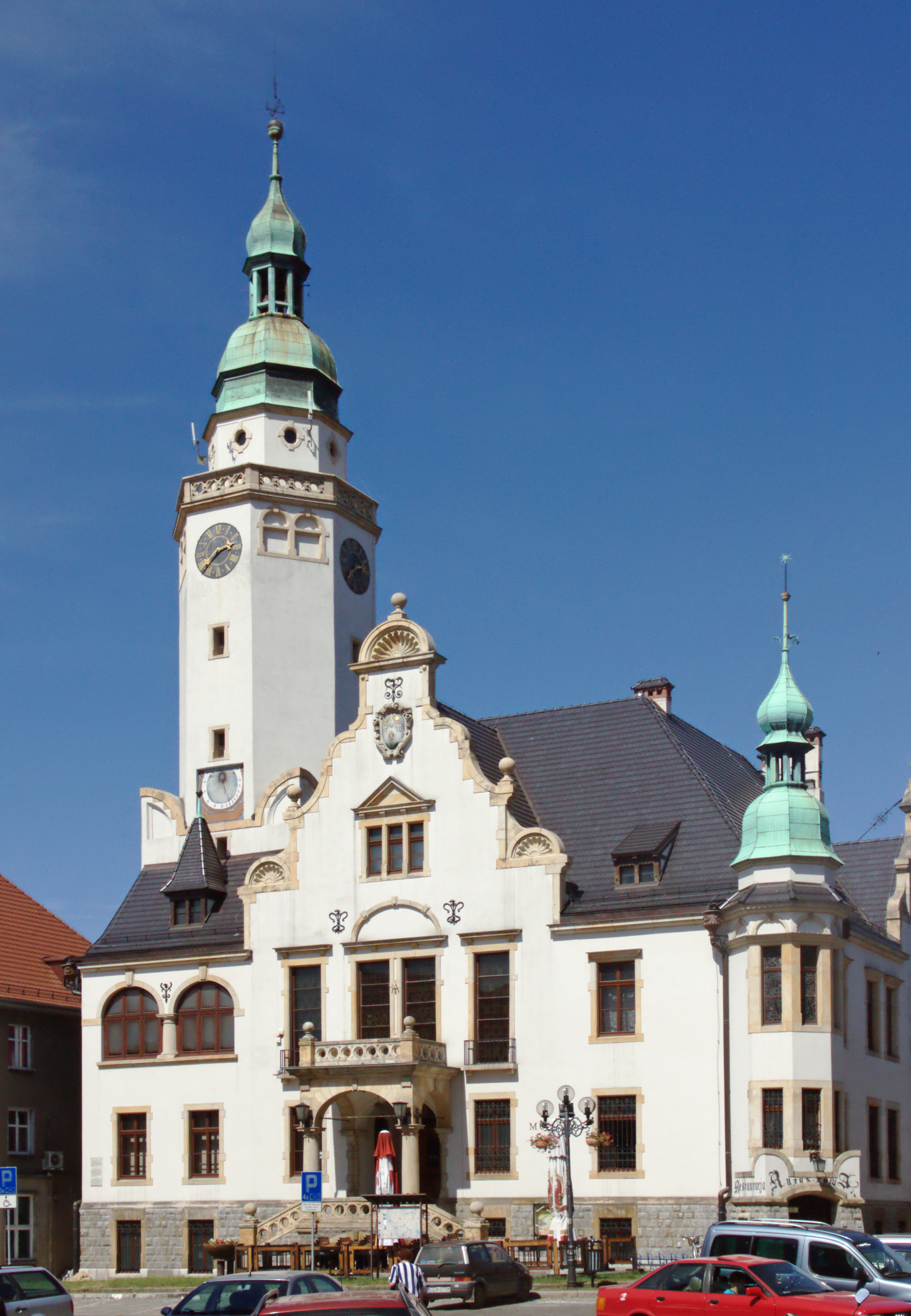 Ziębice Town hall, Poland